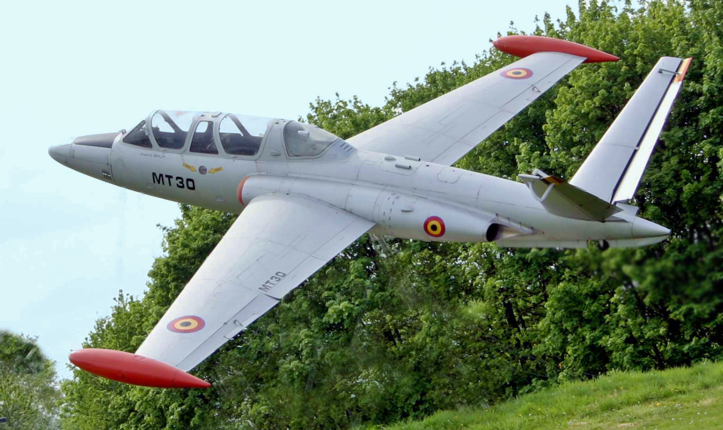 Belgian Fouga Magister (cropped)